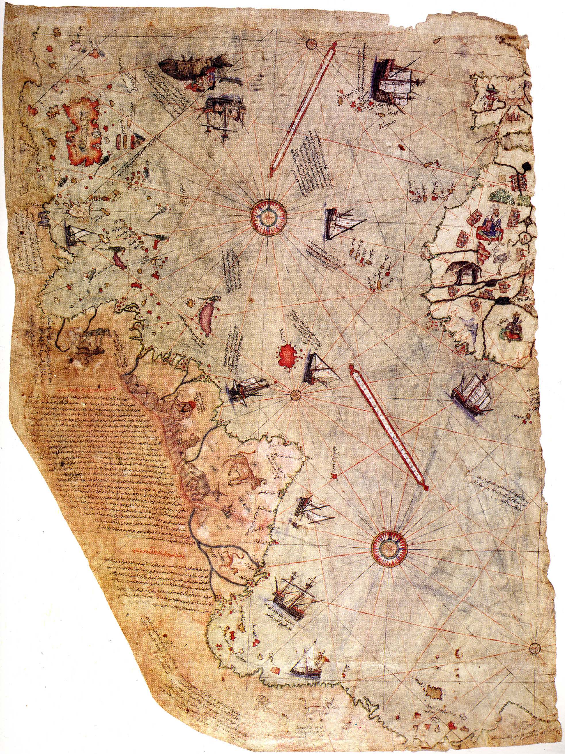 Map of the world by Ottoman admiral Piri Reis, drawn in 1513. Only half of the original map survives and is held at the Topkapi Museum in Istanbul. The map synthesizes information from twenty maps, including one drawn by Christopher Columbus of the New World